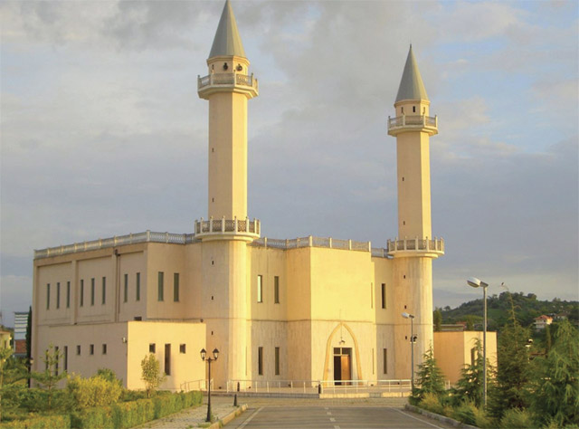 Baitul Awwal Mosque, Tirana